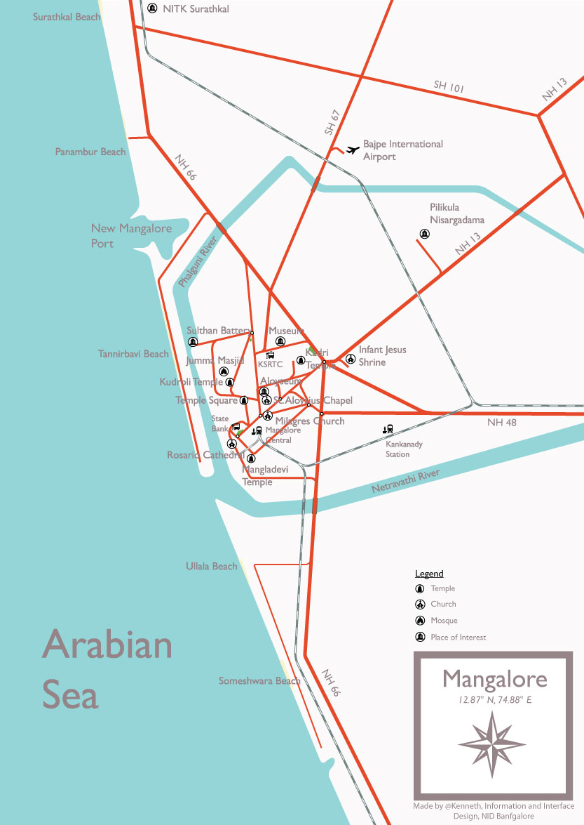 A schematic map showing the tourist places in and around Mangalore city